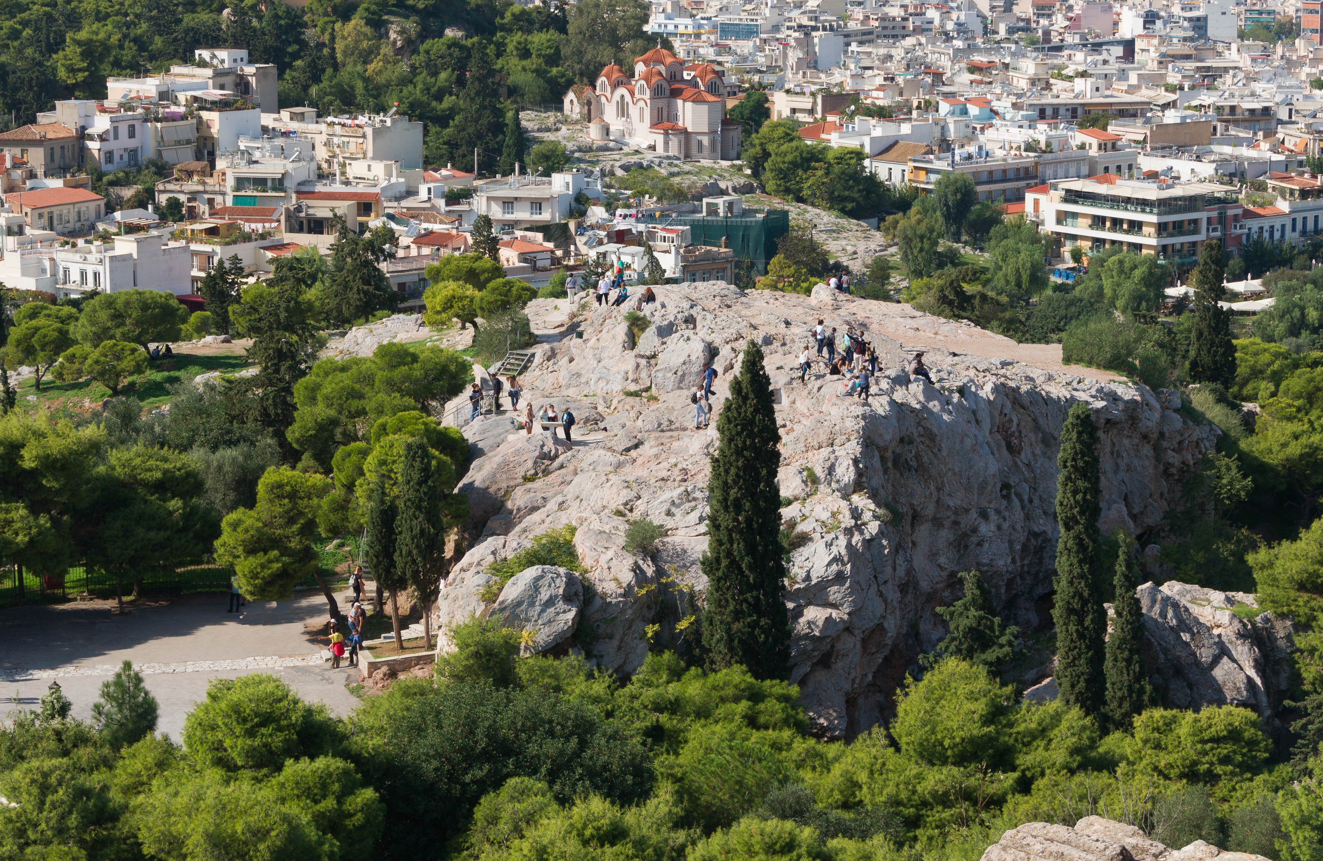 The Areopagus Hill, as seen from the Acropolis, Athens, Greece.